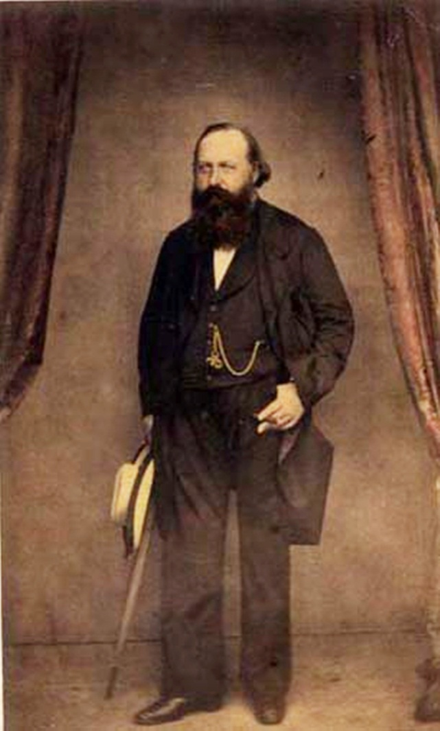 Prince Leopold, Count of Syracuse (1813-1860)